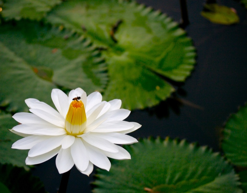 Nymphaea lotus water-lily. Singapore Botanical Garden.